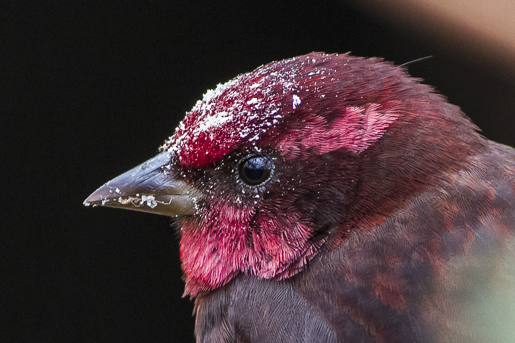 This file contains the image of Dark-breasted Rosefinch photographed from Sikkim, India at an altitude of 9,800 ft.